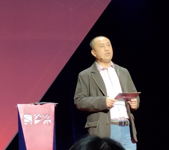 Ma Qianzu in Guan Video 2019 Year End Show 《Answer》